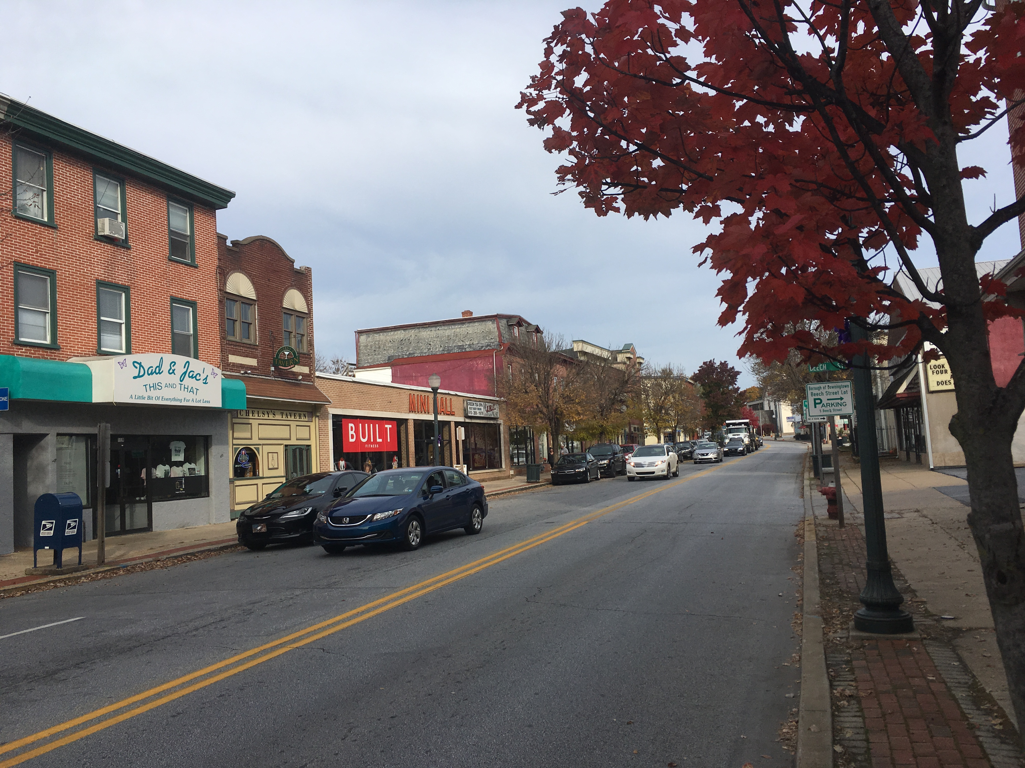 Eastbound U.S. Route 30 Business/U.S. Route 322 Truck (Lancaster Avenue) past the intersection with U.S. Route 322 (Brandywine Avenue) in Downingtown, Pennsylvania